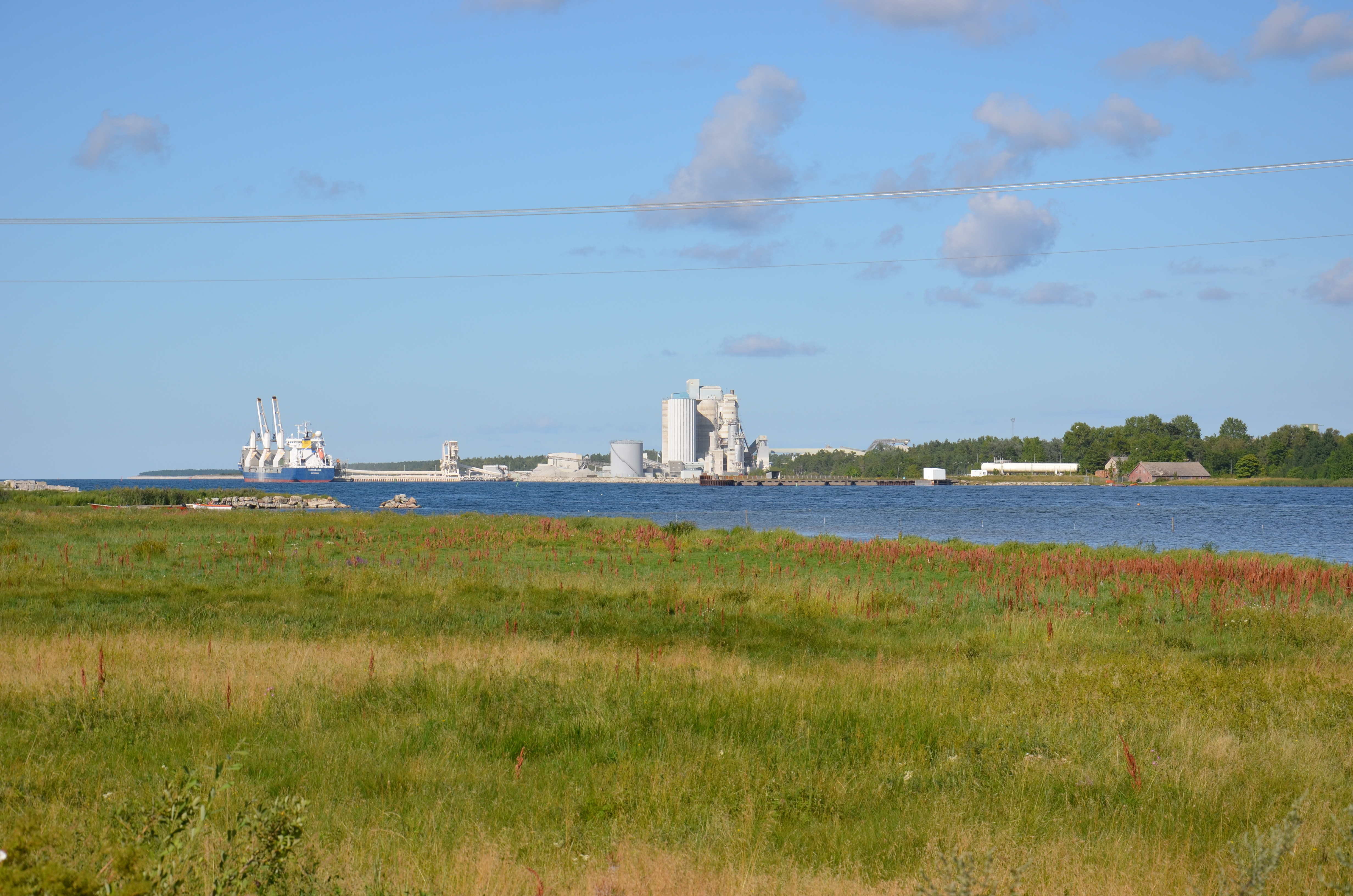 Storugns, Kapellshamnsviken, Gotland